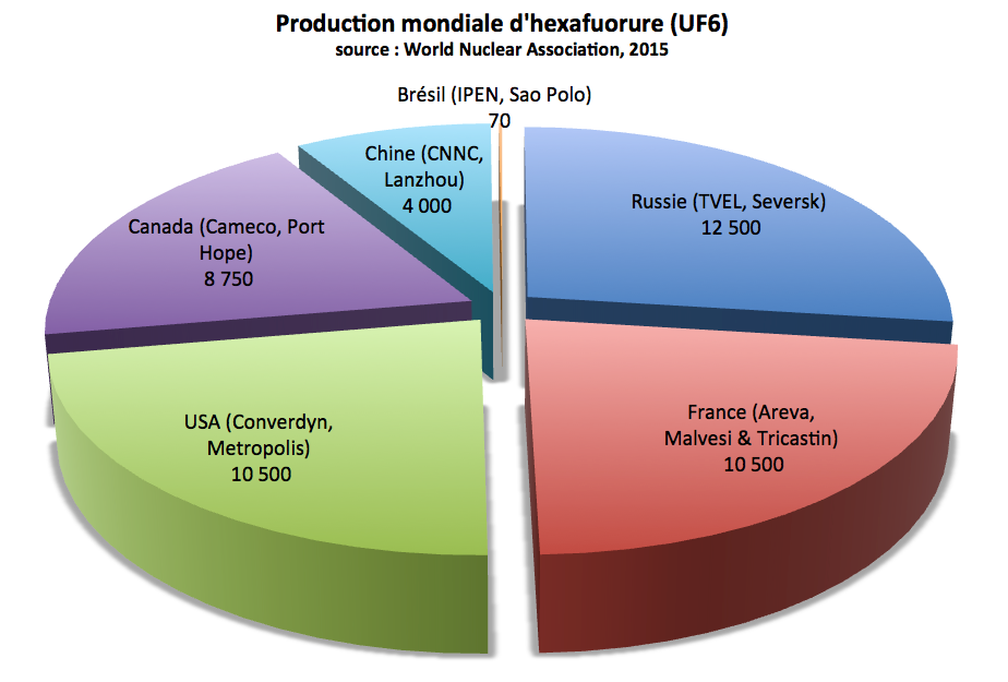 World Primary Conversion of Uranium into UF6 in 2015 Russie (TVEL, Seversk) 12 500 tU/y France (Areva, Malvesi & Tricastin) 10 500 tU/y USA (Converdyn, Metropolis) 10 500 tU/y Canada (Cameco, Port Hope) 8 750 tU/y Chine (CNNC, Lanzhou) 4 000 tU/y Brésil (IPEN, Sao Polo) 70 tU/y Total 46 320 tU/y